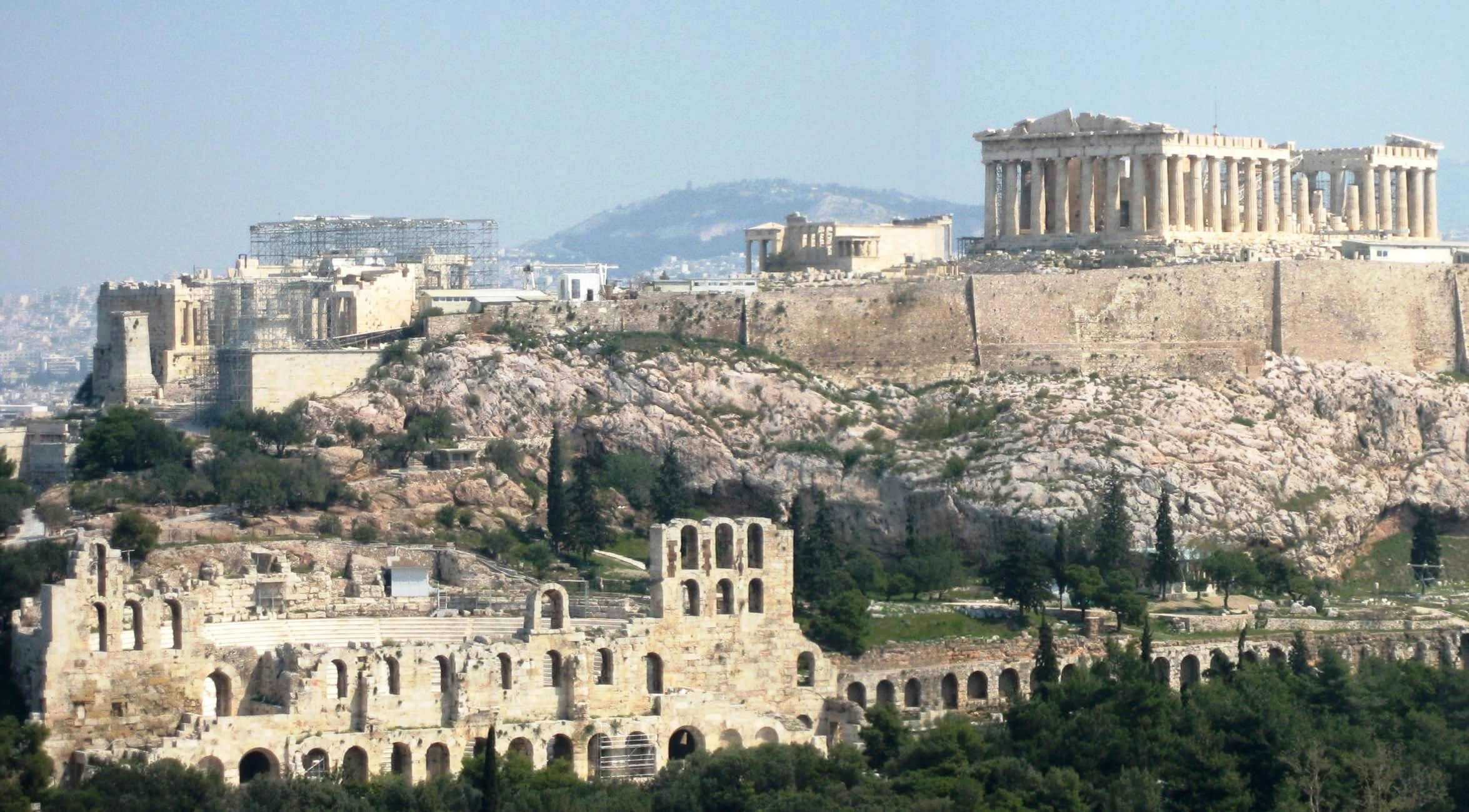 Acropolis from a top Philopappos Hill.